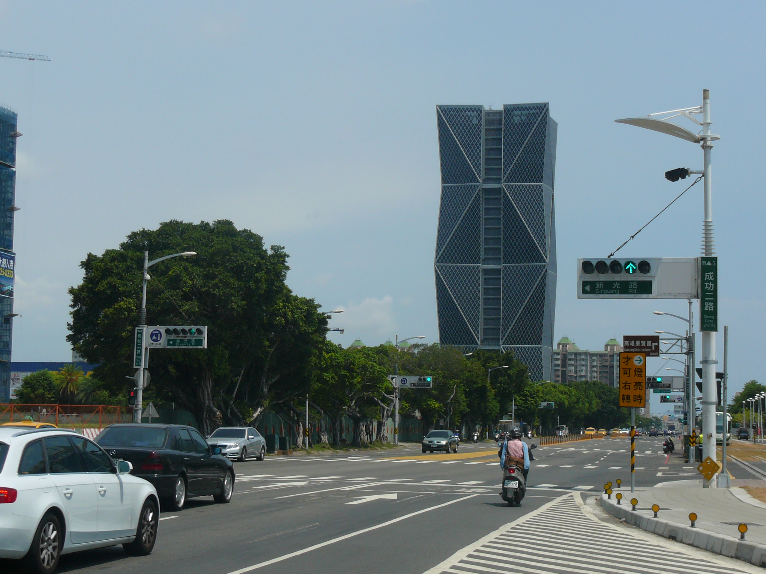 China Steel Corporation Headquarters view from Chenggong 2nd Road and Singuang Road intersection, Cianjhen District, Kaohsiung City.